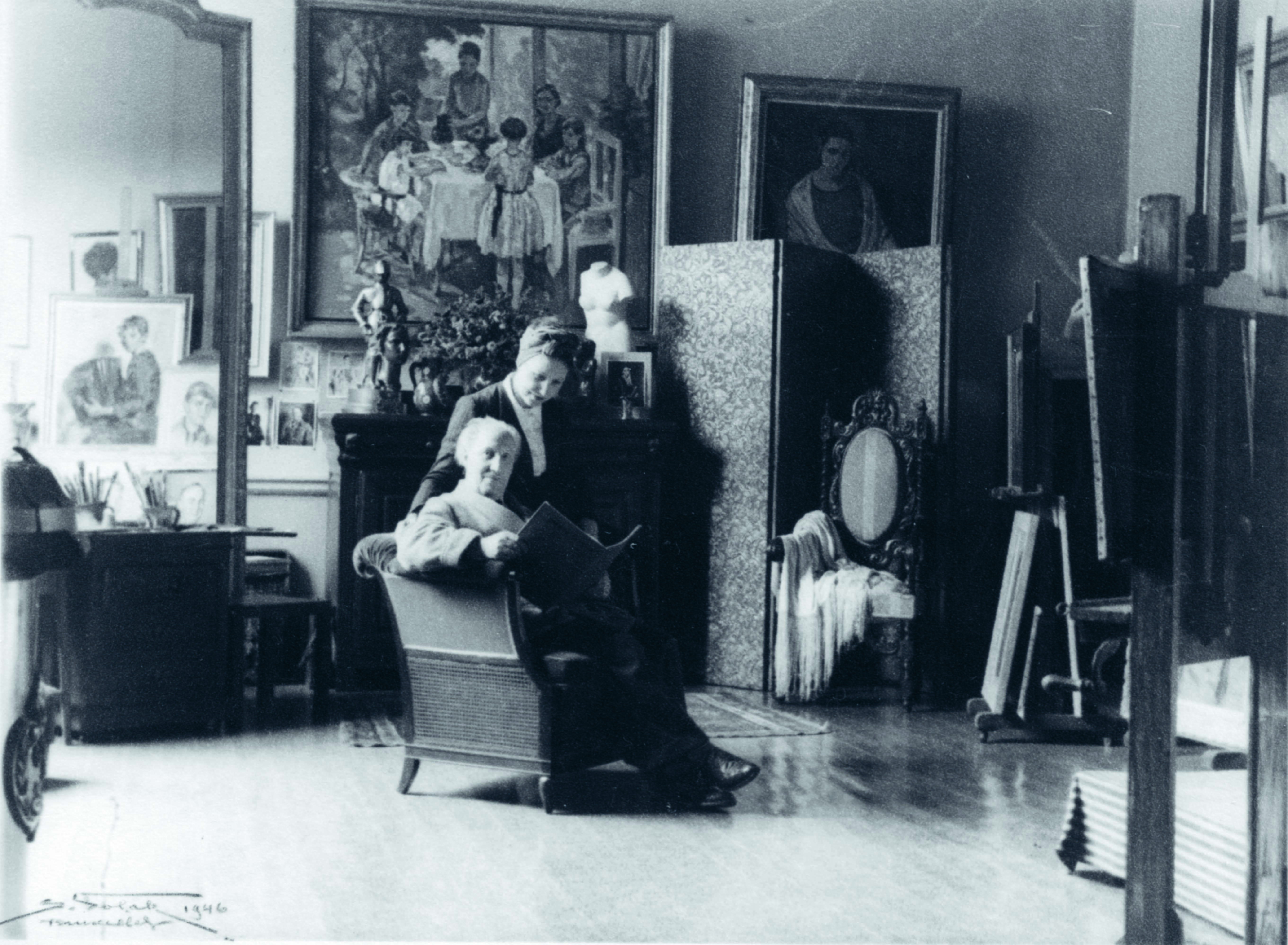 Jean en Hortensia in Etablissements Mommen, ca 1946